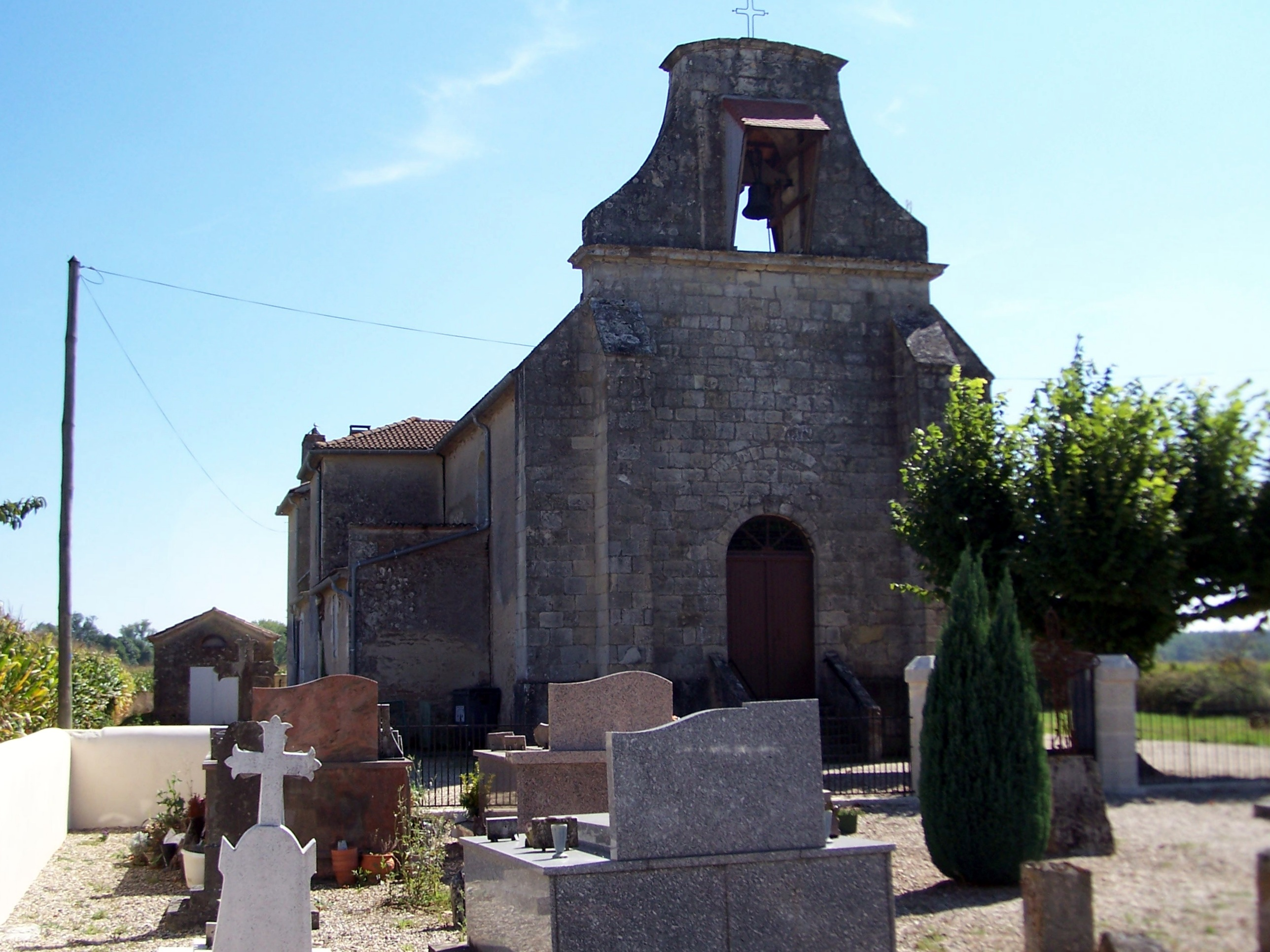 Saint John the Baptist church of Jusix (Lot-et-Garonne, France)